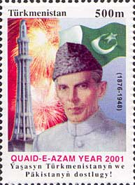 125th Birth Anniversary of Quaid Azam. 500 M. multicoloured. Portrait of founder of Pakistan Quaid Azam, 1876-1948